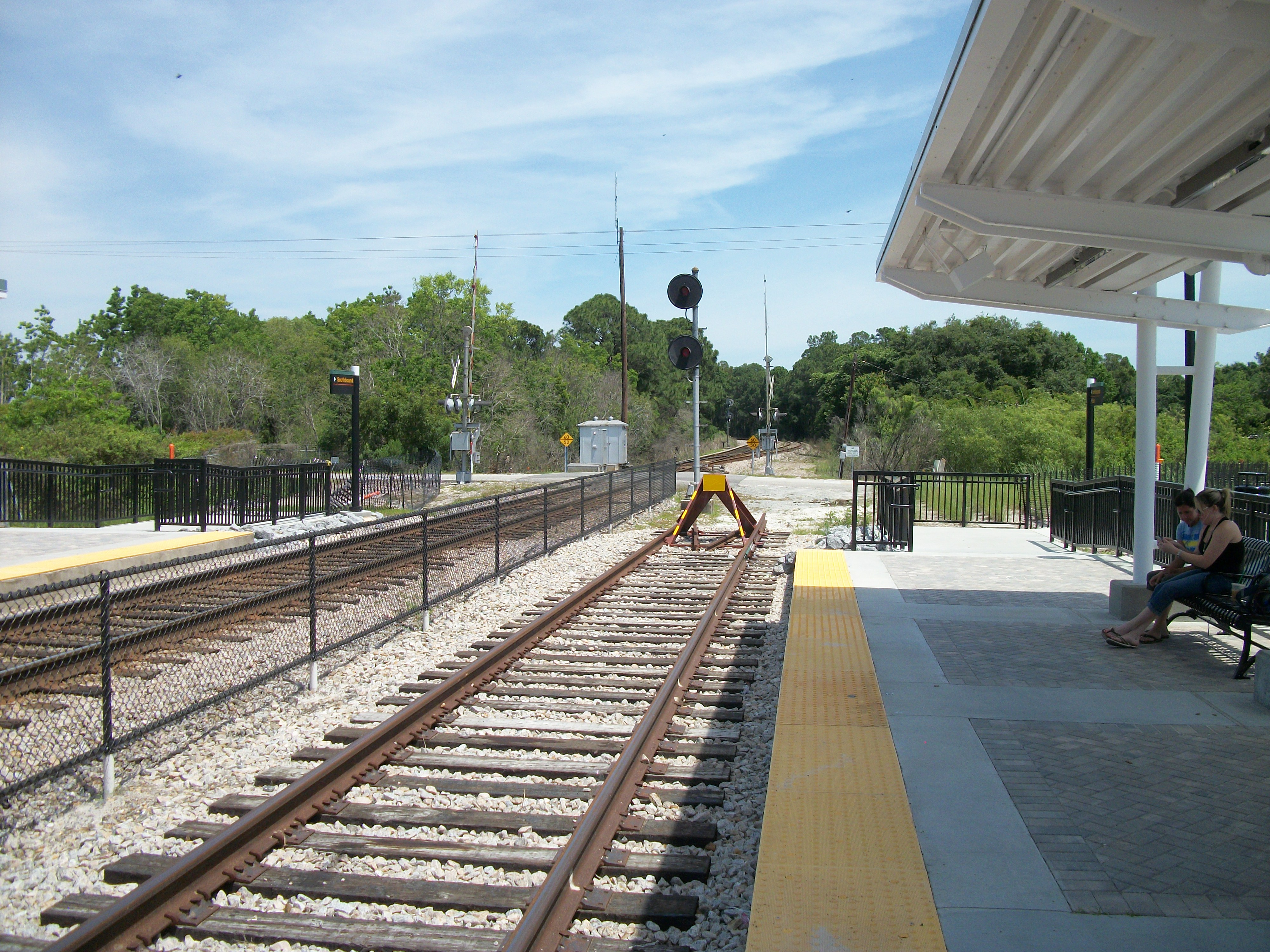 The north end of the line at DeBary SunRail station in DeBary, Florida. The other side of the tracks are used by Amtrak, but when the SunRail system is expanded to the DeLand Amtrak station, that dead end bumper is going to come down, and the Fort Florida Road grade crossing will get a second track.